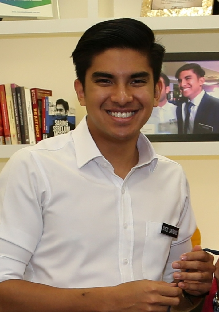 Ambassador Kamala Lakhdhir meet Minister of Youth and Sports YB Syed Saddiq